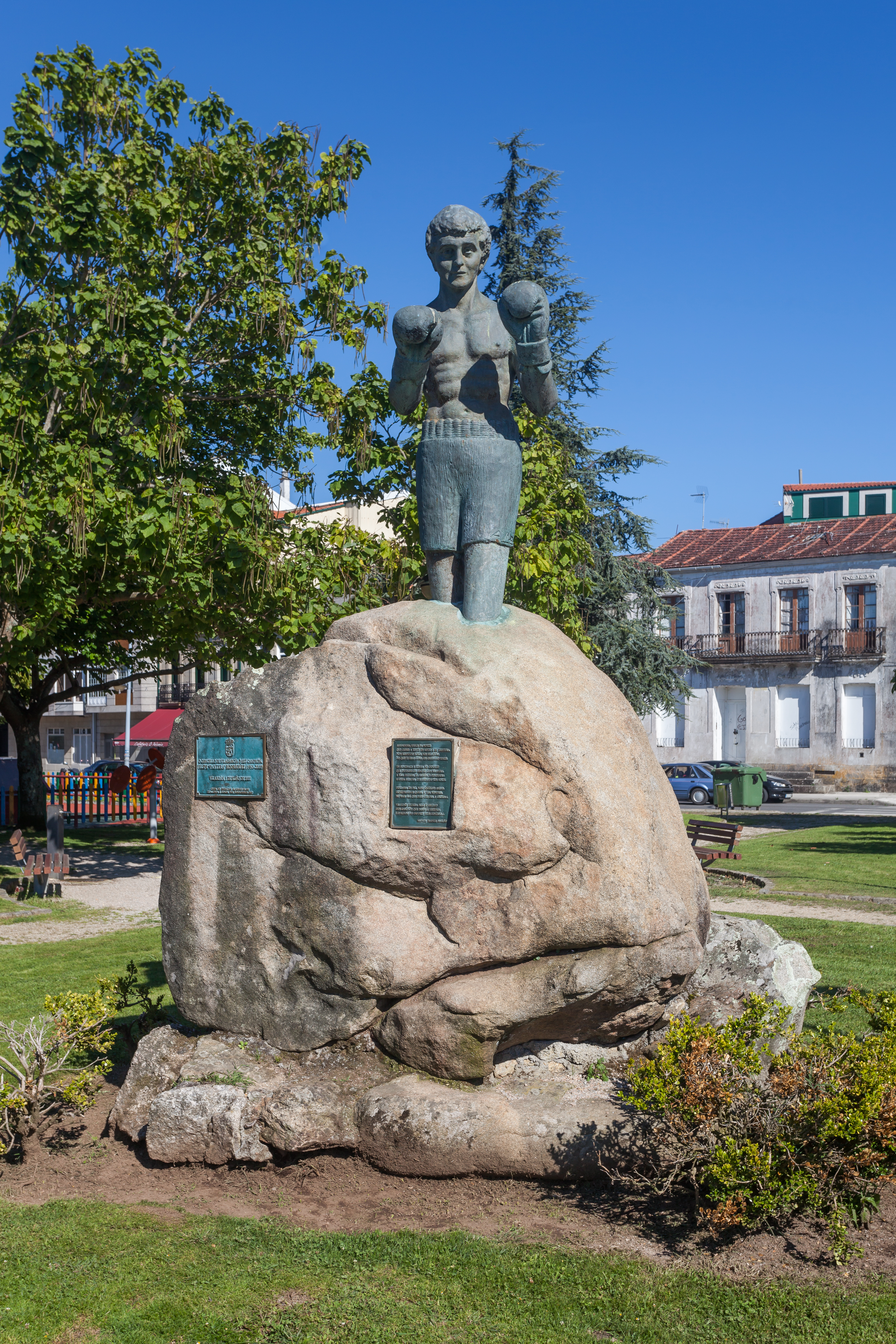 Sculpture of "Pantera" Rodríguez, by Alfonso Vilar, Vilaxoán, Sobrán, Vilagarcía de Arousa, Galicia (Spain).